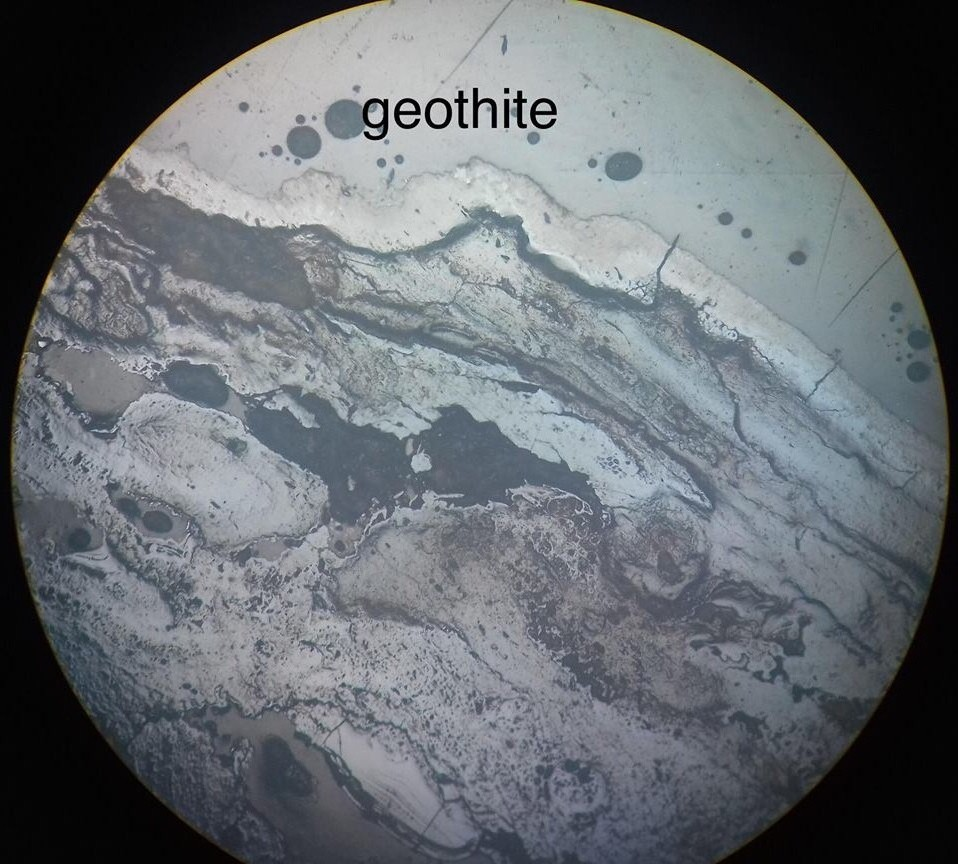 Microscopic image of Geothite